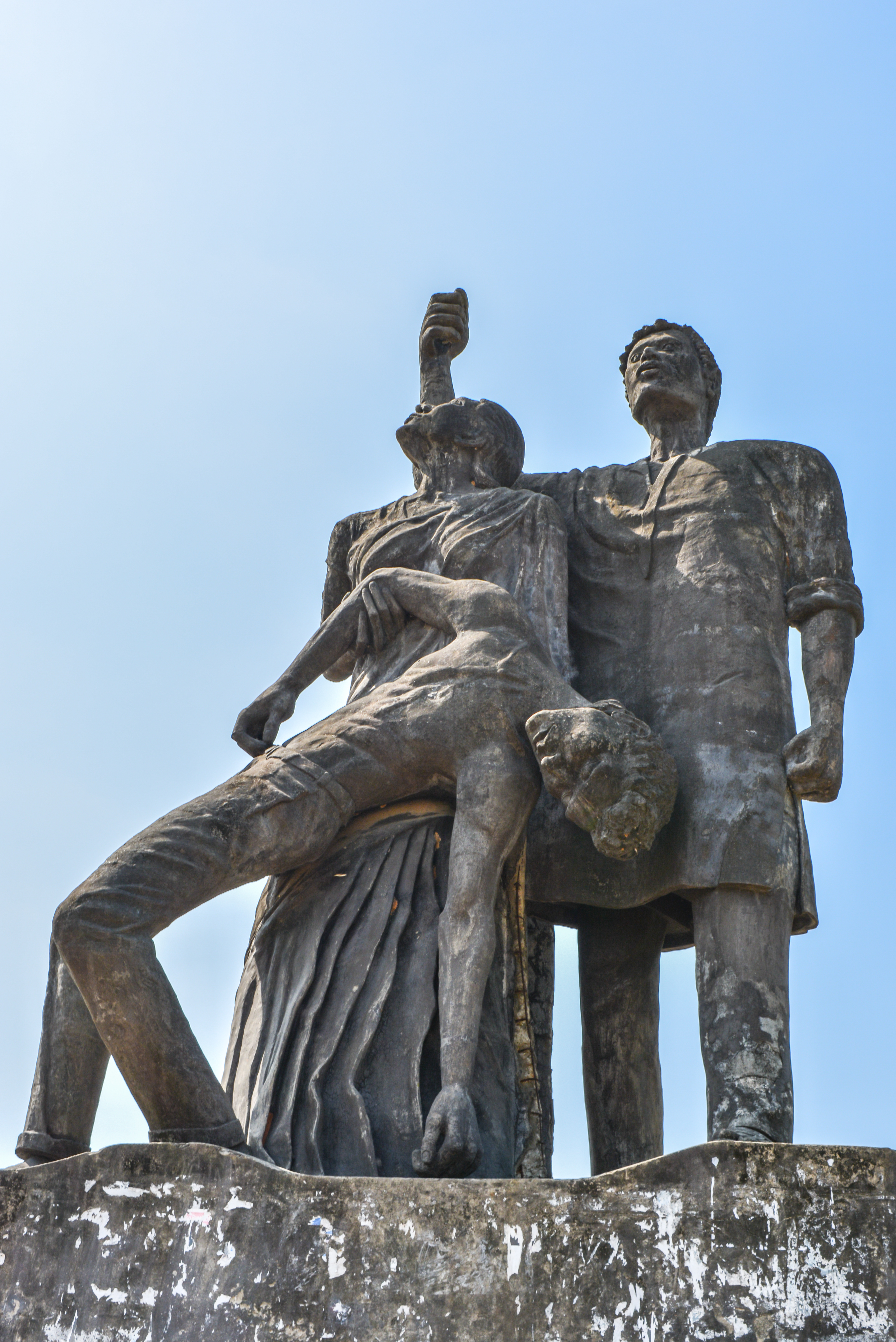 Amar Ekushey (sculpture) which is situated at Jahangirnagar University.On February 20, 1991, former VC Prof Kazi Saleh Ahmed inaugurated this sculpture.It is almost 34 feet high. Jahanara Parvin was the architect of this famous sculpture.